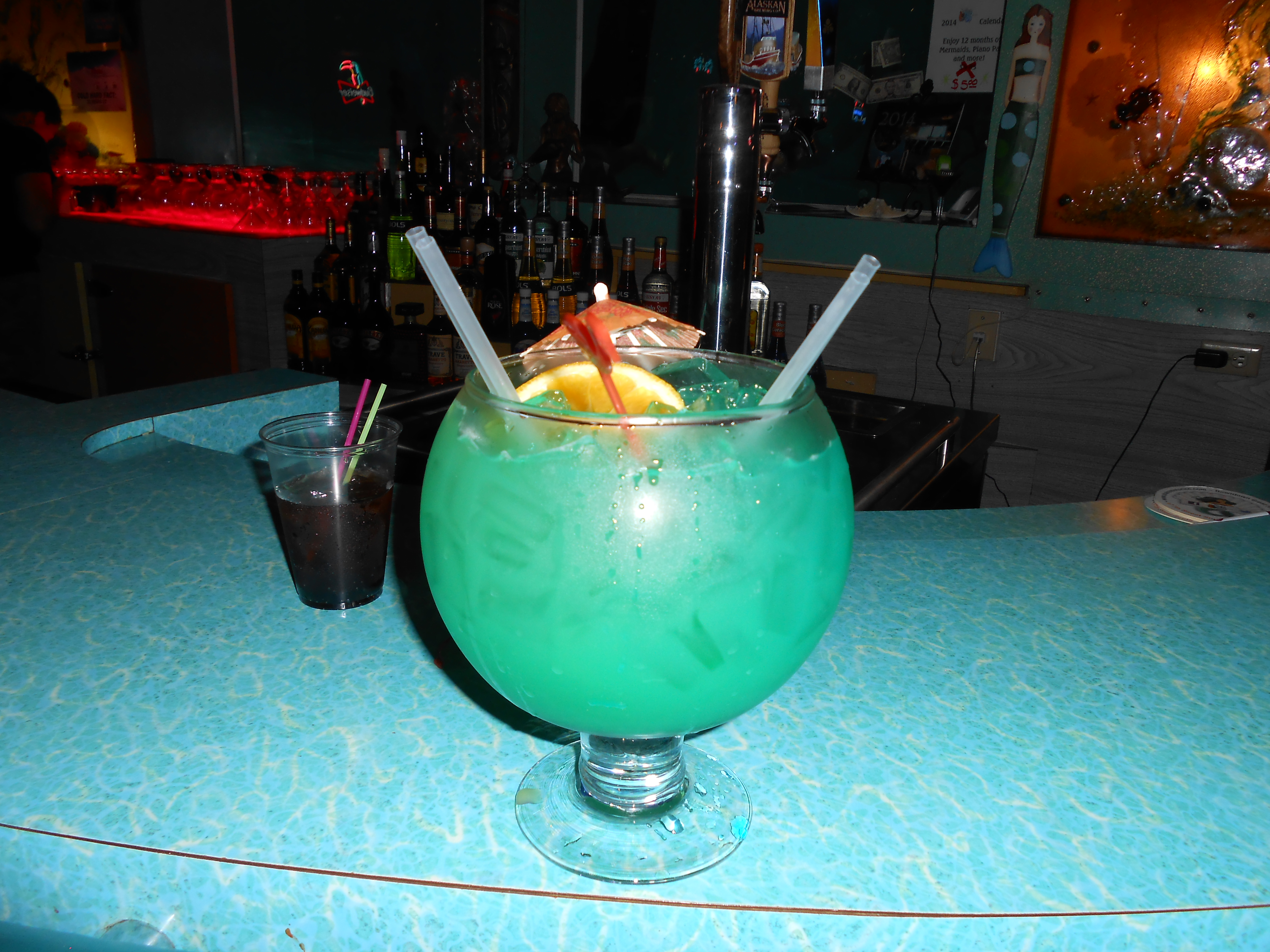 "The fishbowl" - the iconic alcoholic beverage at the Sip n Dip, Great Falls, Montana, 2014